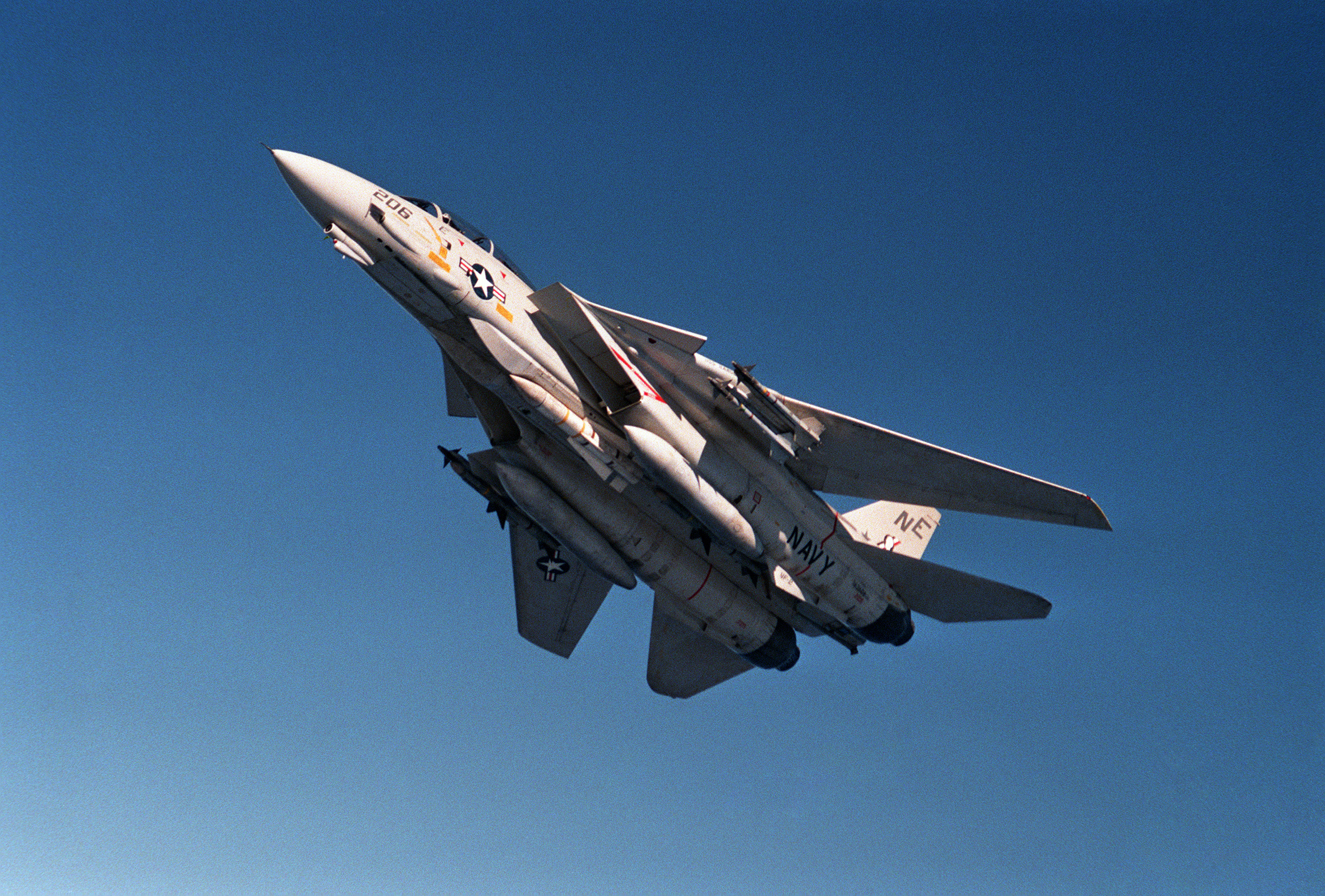 A left underside view of an F-14A Tomcat aircraft from Fighter Squadron 2 (VF-2) in flight over the air station. The aircraft is well armed, carrying AIM-9 Sidewinder missiles on its right wing pylon, another Sidewinder and an AIM-7 Sparrow III missile on its left wing pylon, another Sparrow III on the fuselage in the aft centerline position, and an AIM-54 Phoenix missile in the forward centerline position.